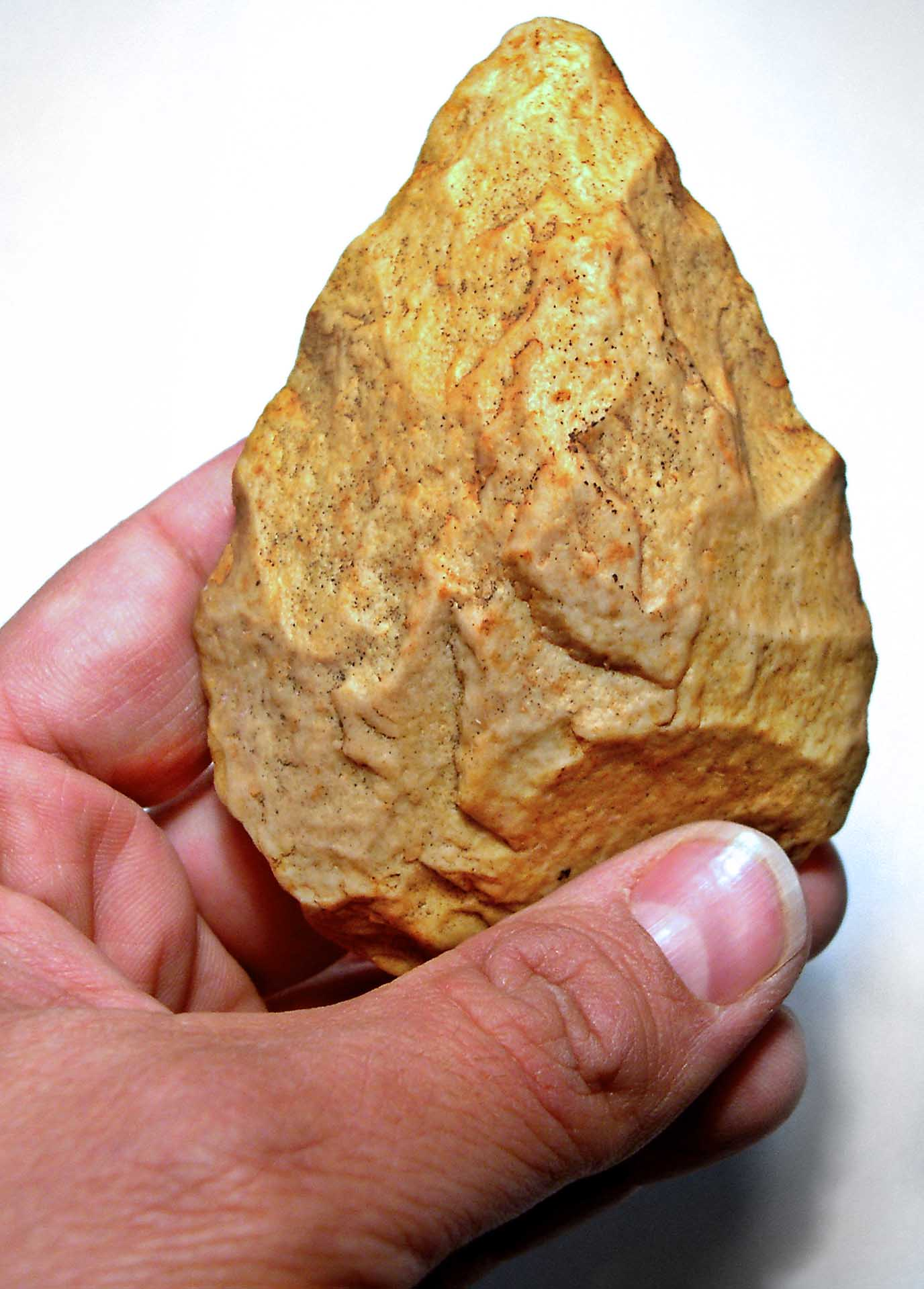 Acheulean hand axe that proceeds from a superficial site in the Zamora province (Spain), in the valley of a tributary of Douro river.